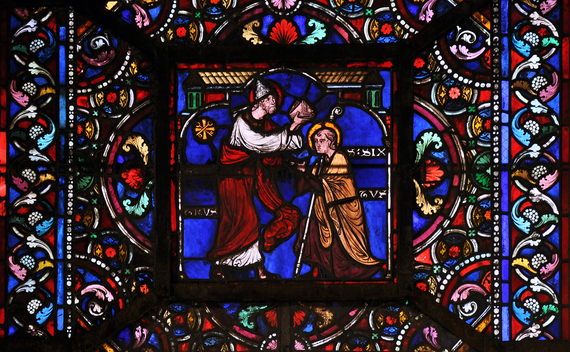 Detail of a stained glass window in the Cathédrale de Soissons : the history of Saint Sixte. Sixte is done bishop by Saint Peter. 13th or 14th century.